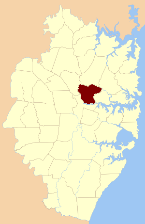 original location of the parish within Cumberland County, New South Wales (Sydney area)